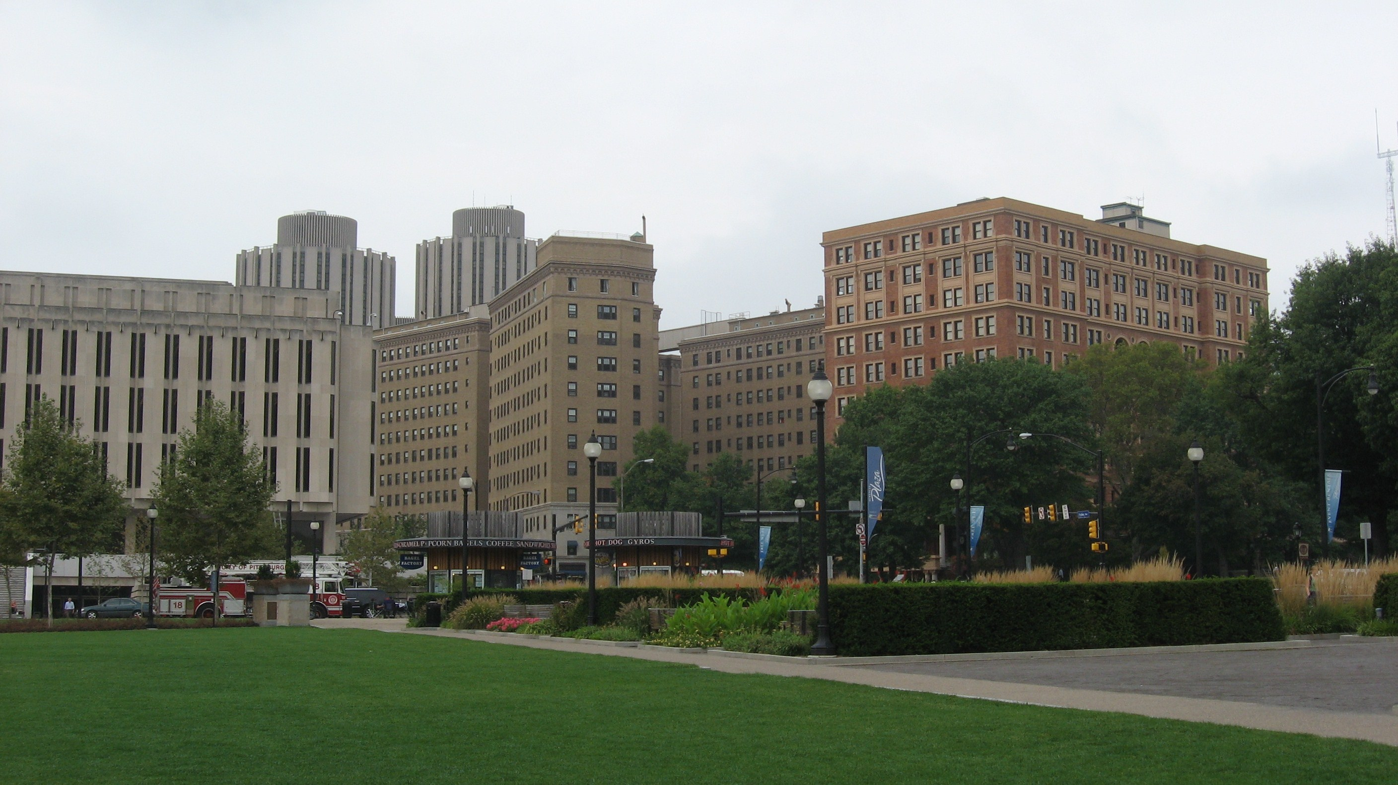 A view of the University of Pittsburgh campus, from the Schenley Plaza.